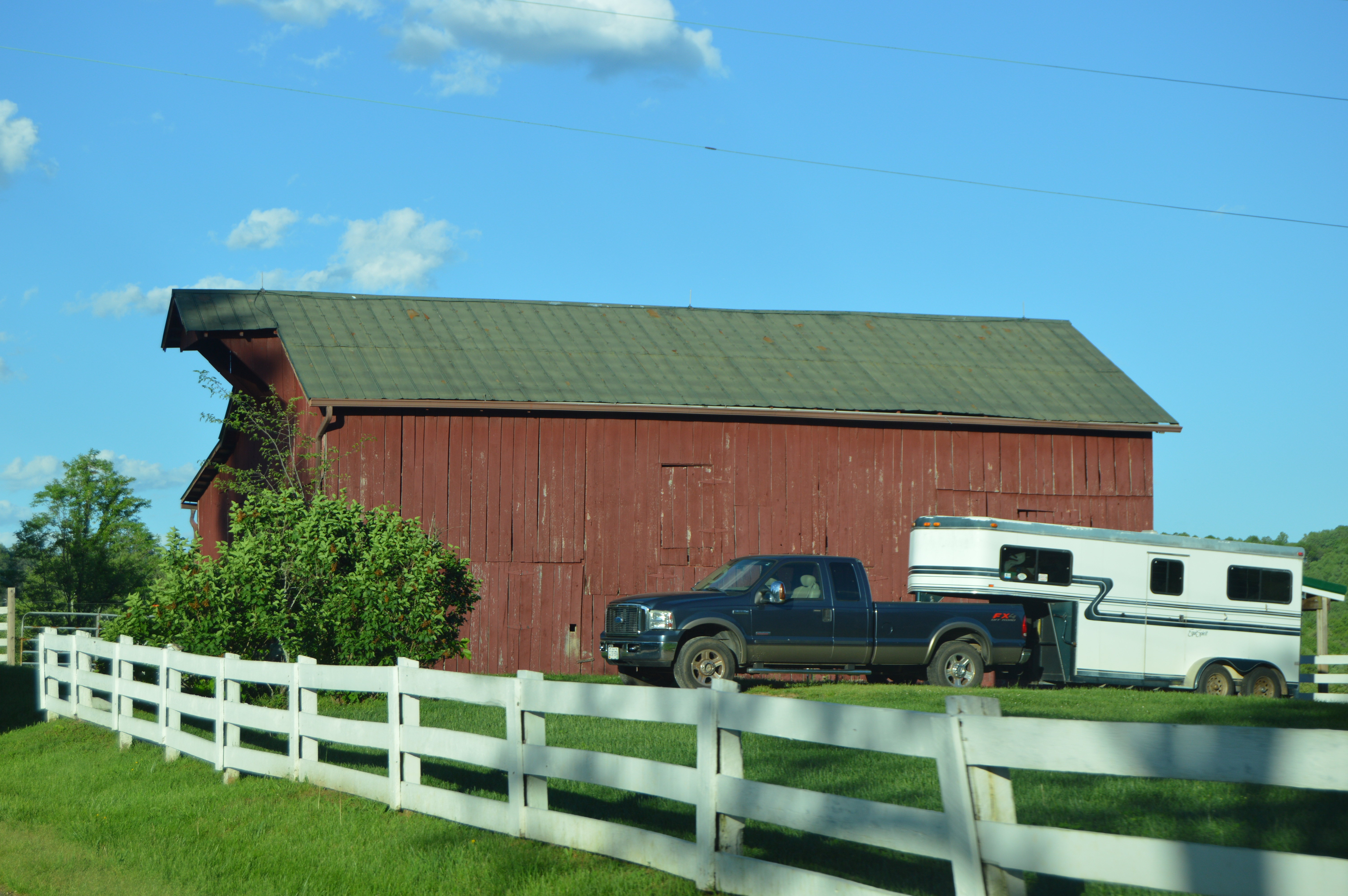 Western side of the barn at The Cedars, a farmstead on Old Cifax Road just east of Otterville Road, at Cifax, in Bedford County, Virginia, United States. Like several nearby farms, The Cedars is part of the Cifax Rural Historic District, a historic district that is listed on the National Register of Historic Places.